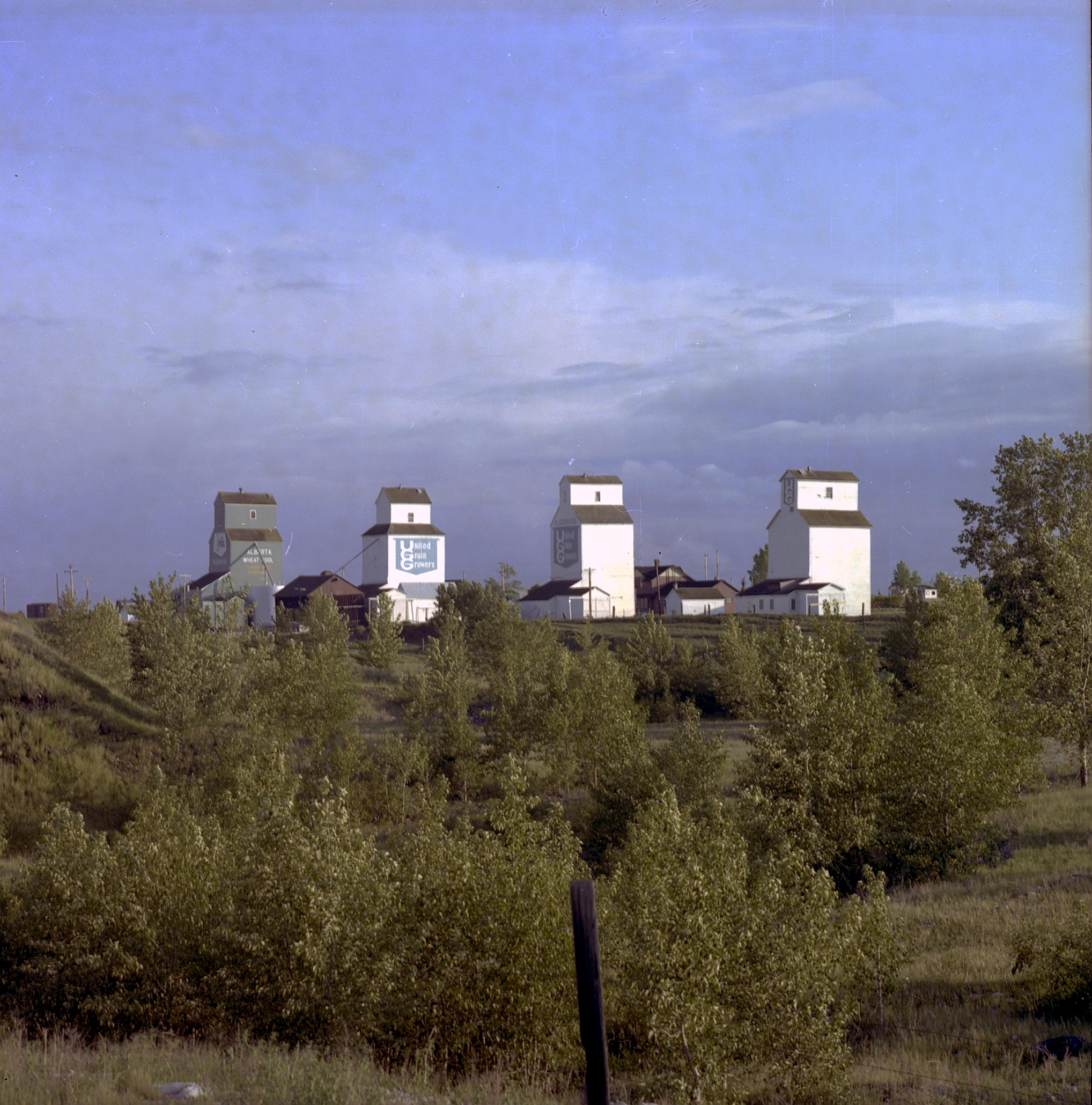 Alberta Wheat Pool and United Grain Growers grain elevators in Aldersyde, Alberta.